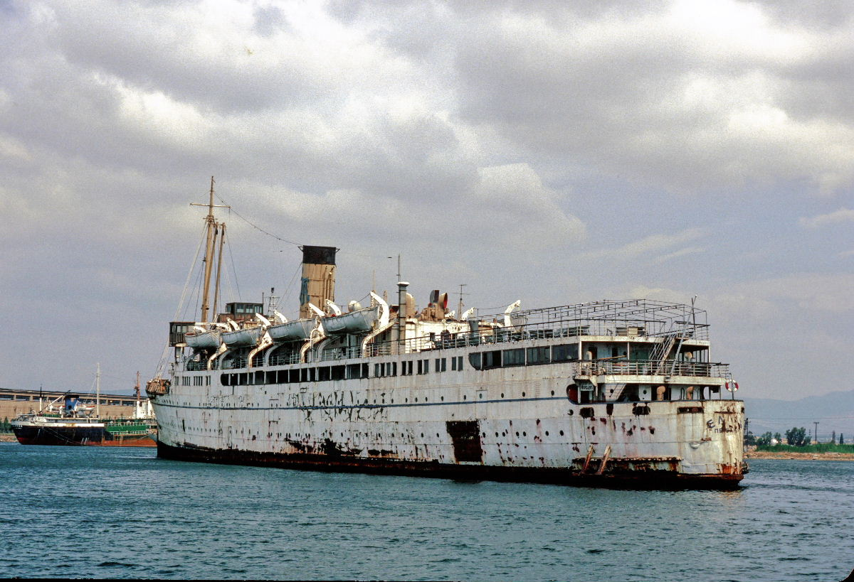 The cruise ship Hellas laid up in Eleusis on July 7, 1986.